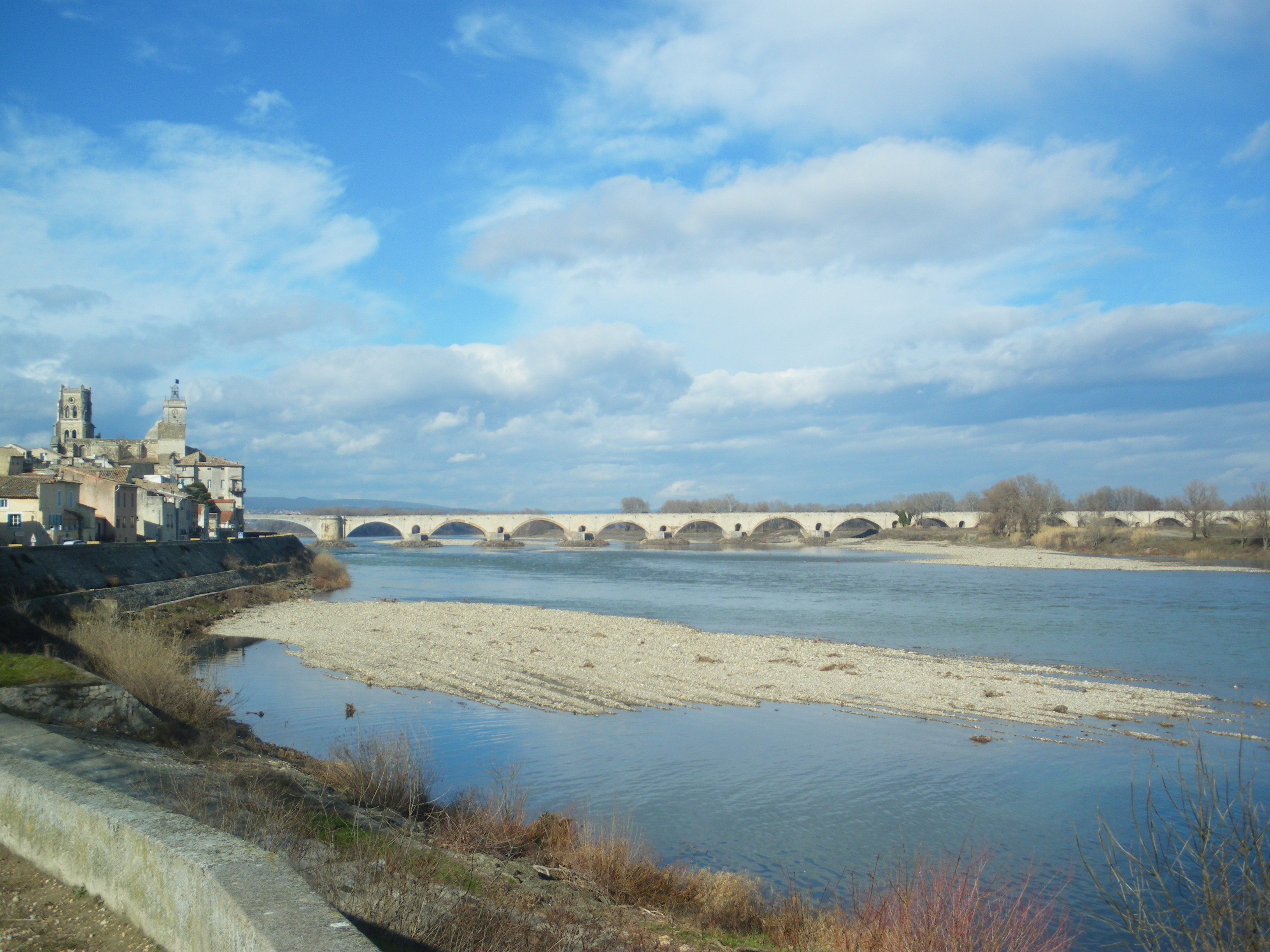 Bridge across Rhône river, in Pont Saint Esprit, Gard department, France